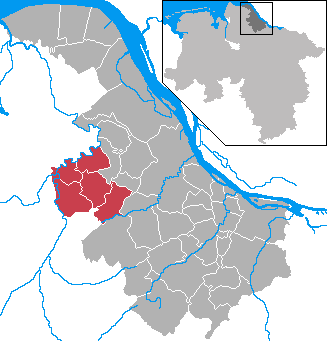 This map shows the area of the Samtgemeinde Oldendorf in the Landkreis (district) Stade, Lower Saxony, Germany.